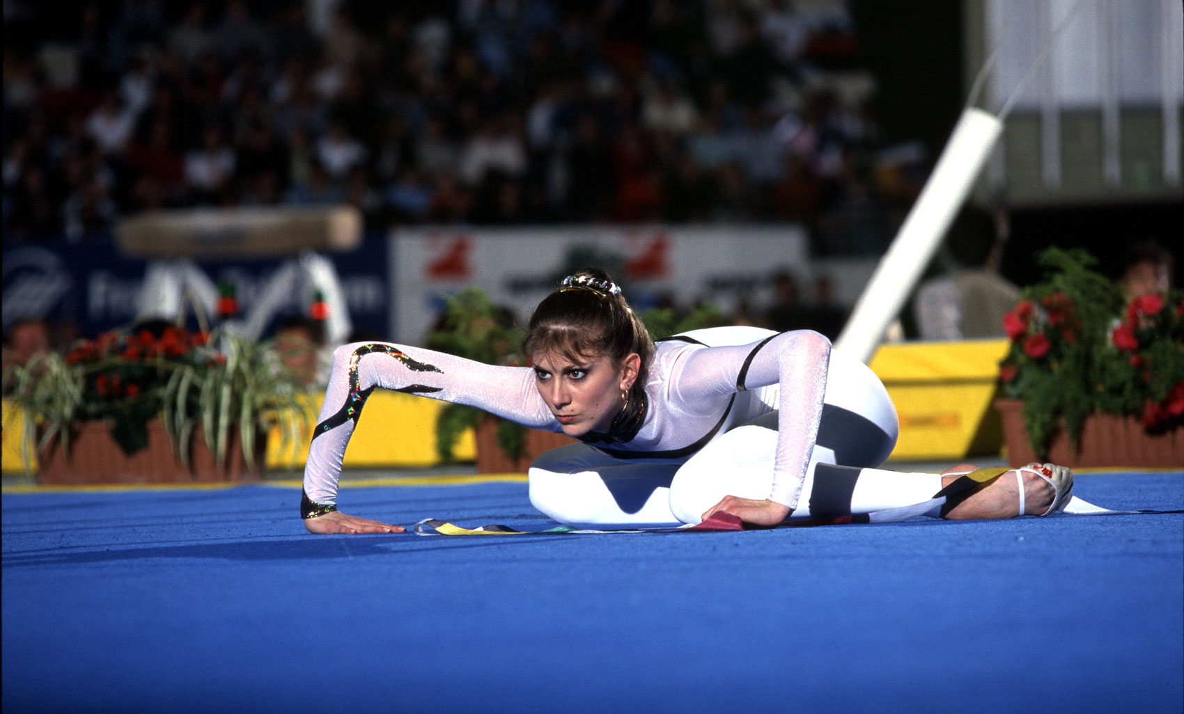 Eva SERRANO French championship of rhythmic and sports gymnastic LYON 15/11/1998